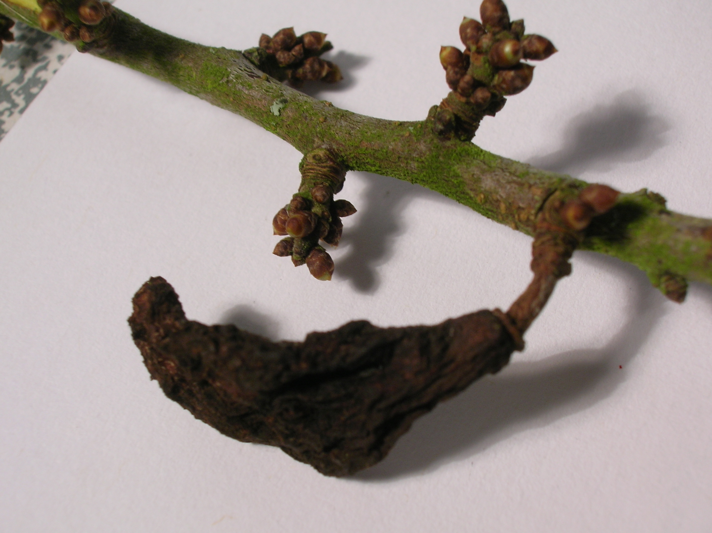 Pocket Plum gall on Sloe or Blackthorn (Prunus spinosa). Taphrina pruni is the fungal gall inducer.